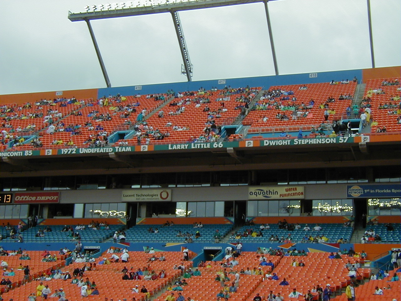 If used somewhere other than Wikipedia, Nelson, by name.